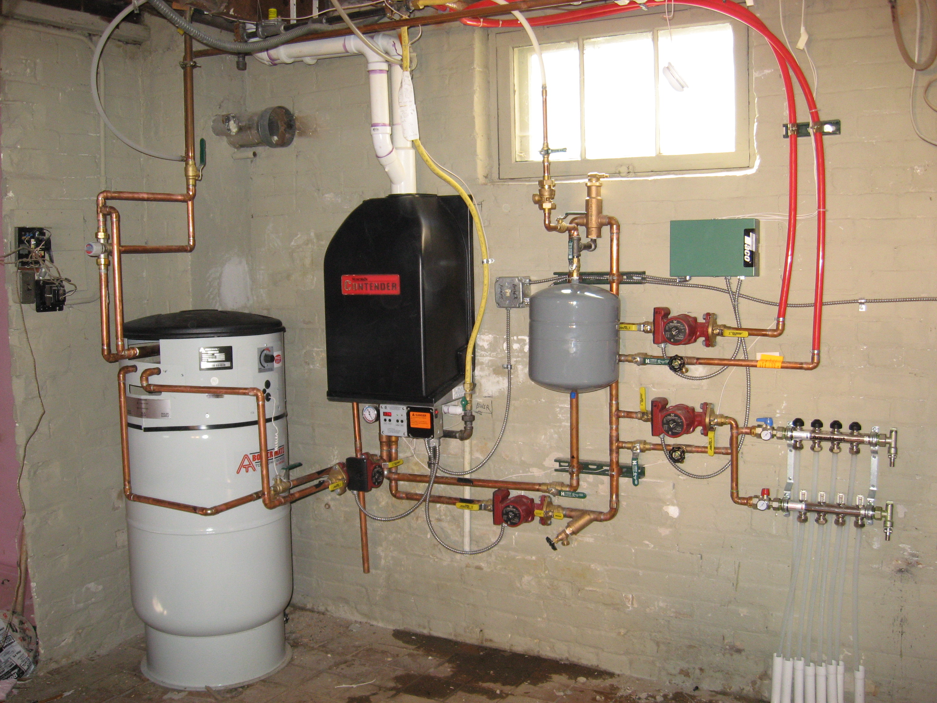 Condensing boiler installation with indirect water heater driving radiant floors and cast iron radiators. Minneapolis, MN USA